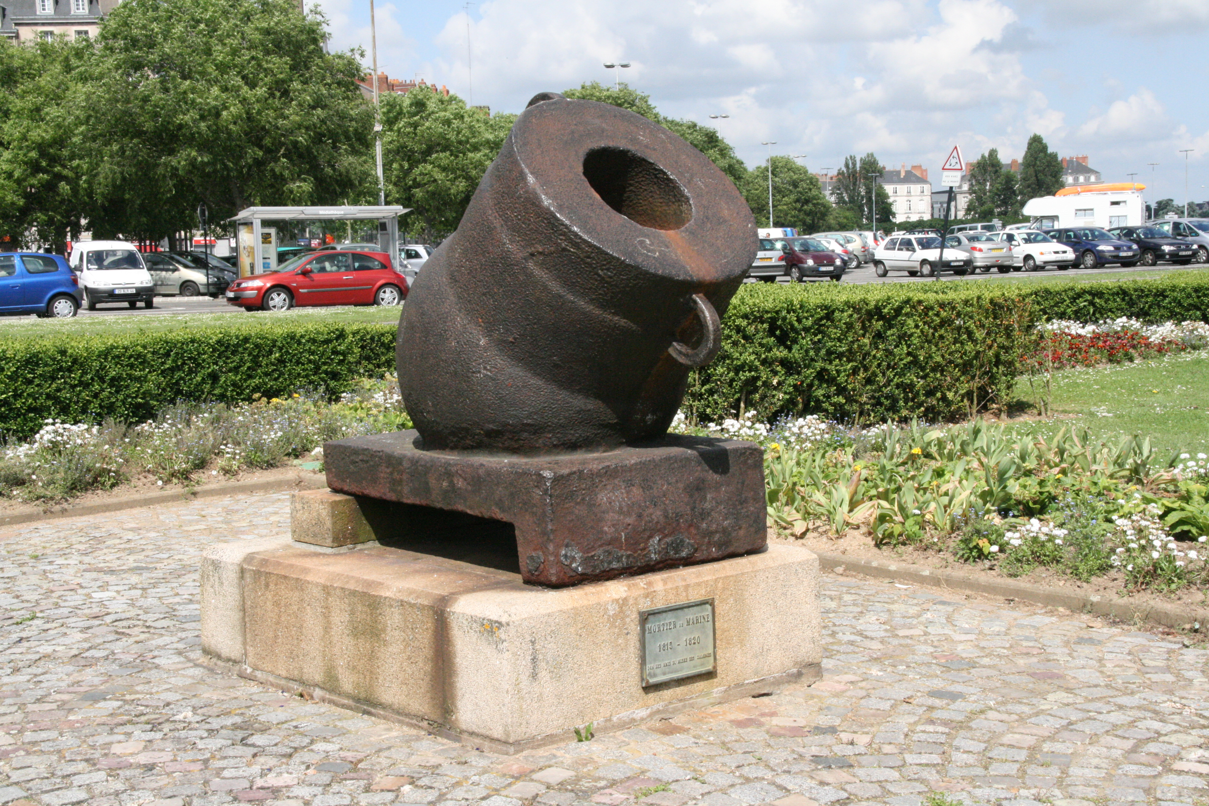 Board Mortar for ship, in Nantes.